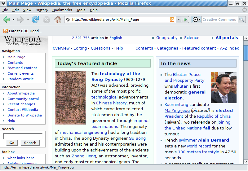 Screenshot of the English Wikipedia Main Page, using Mozilla Firefox 2.0.0.12 in Ubuntu.